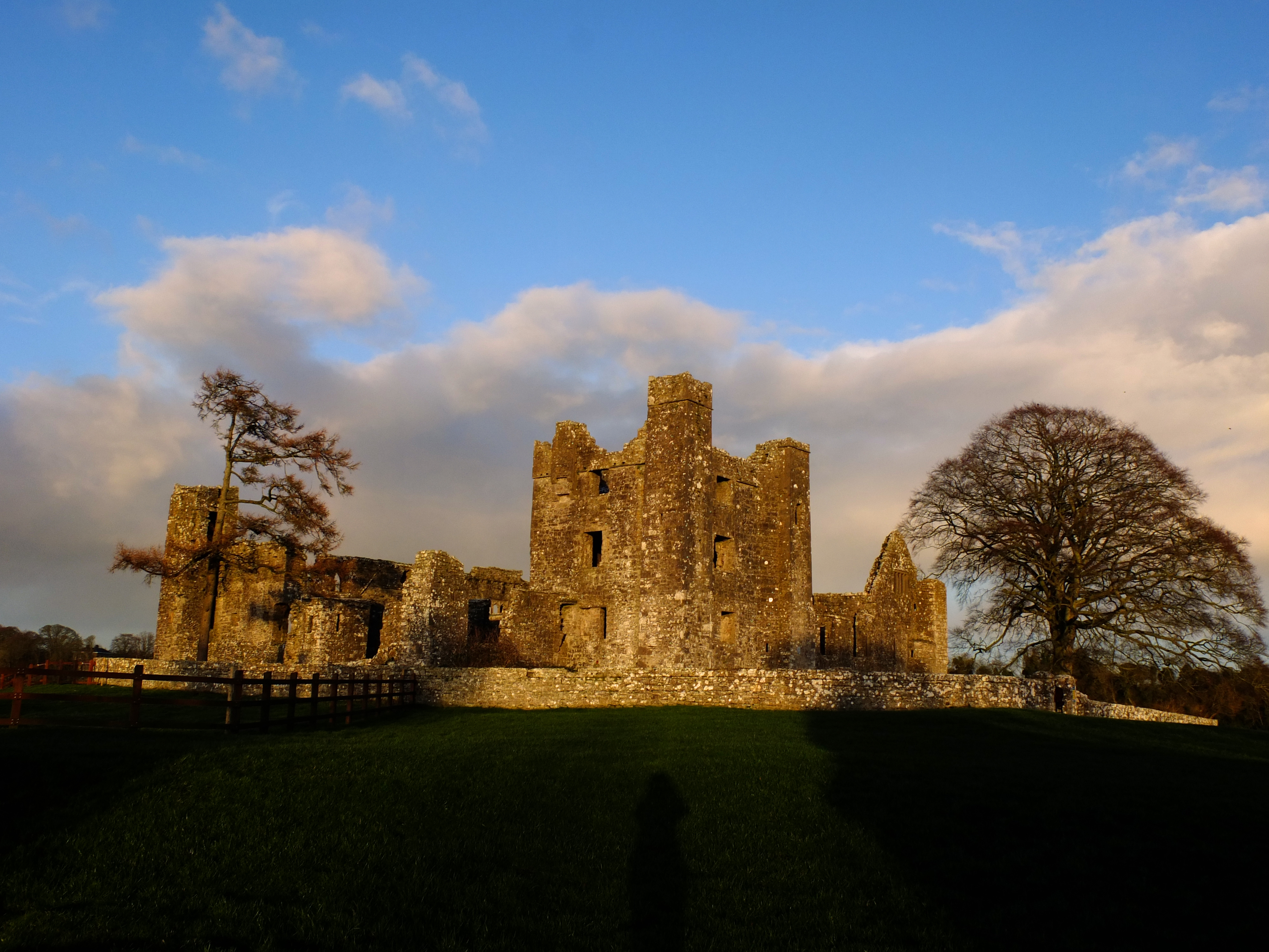 Bective Abbey